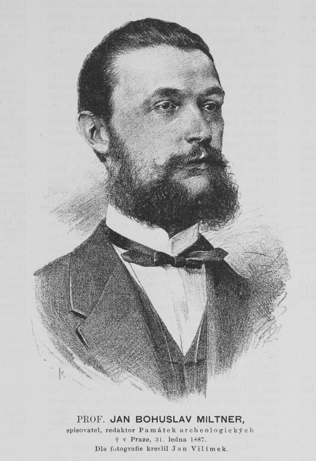 Portrait of Jan Bohuslav Miltner (1841 - 1887), Czech historian.